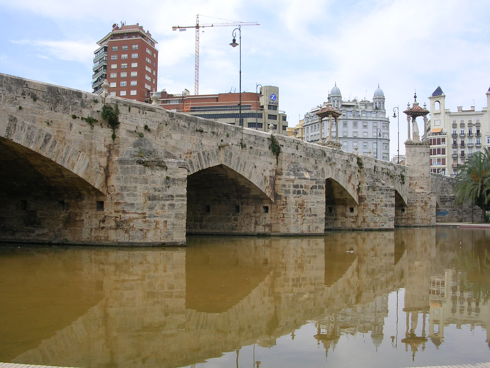 Mar Bridge, Valencia, Spain